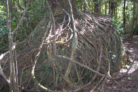 Ficus obliqua on Hawkesbury Sandstone, Watagans National Park